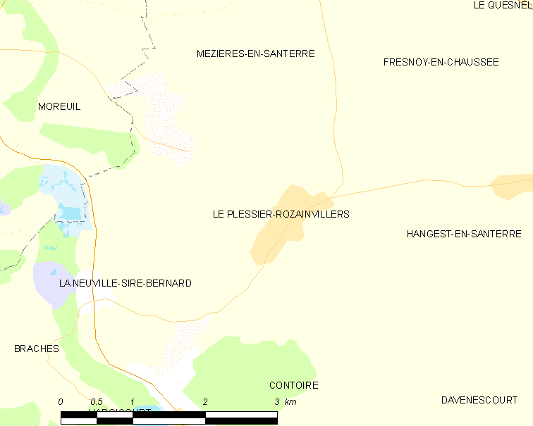 Map of French municipality Le Plessier-Rozainvillers